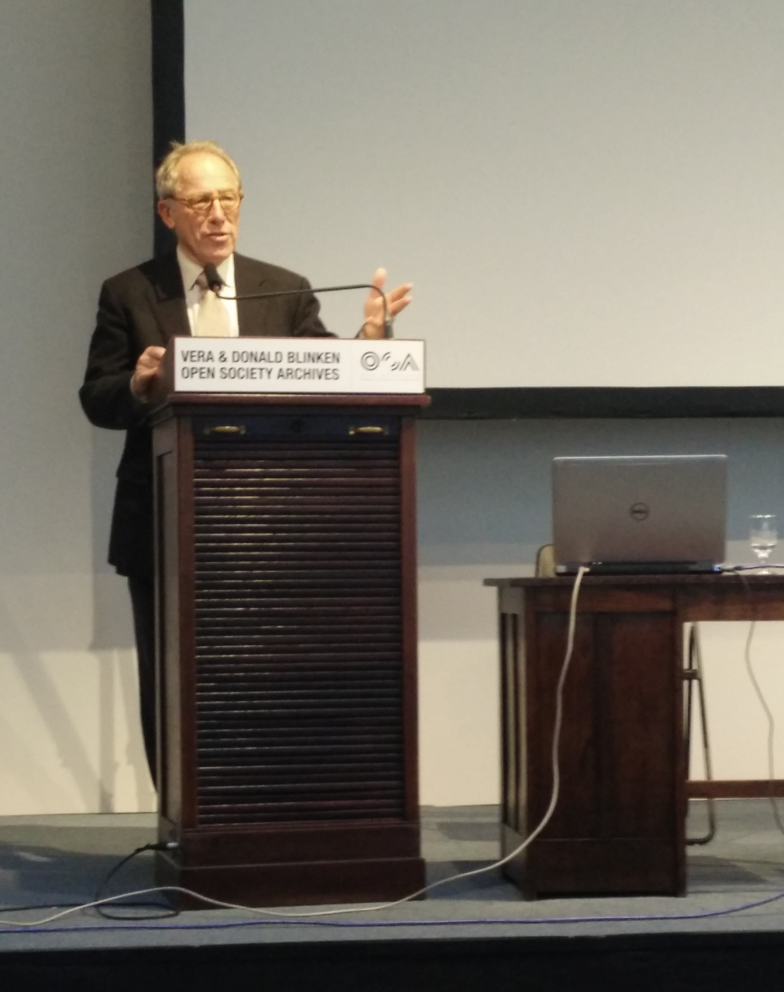 Thomas W. Laqueur at the Blinken Open Society Archives in Budapest, Hungary giving a lecture entitled 'Let the Dead Bury Their Own Dead.'